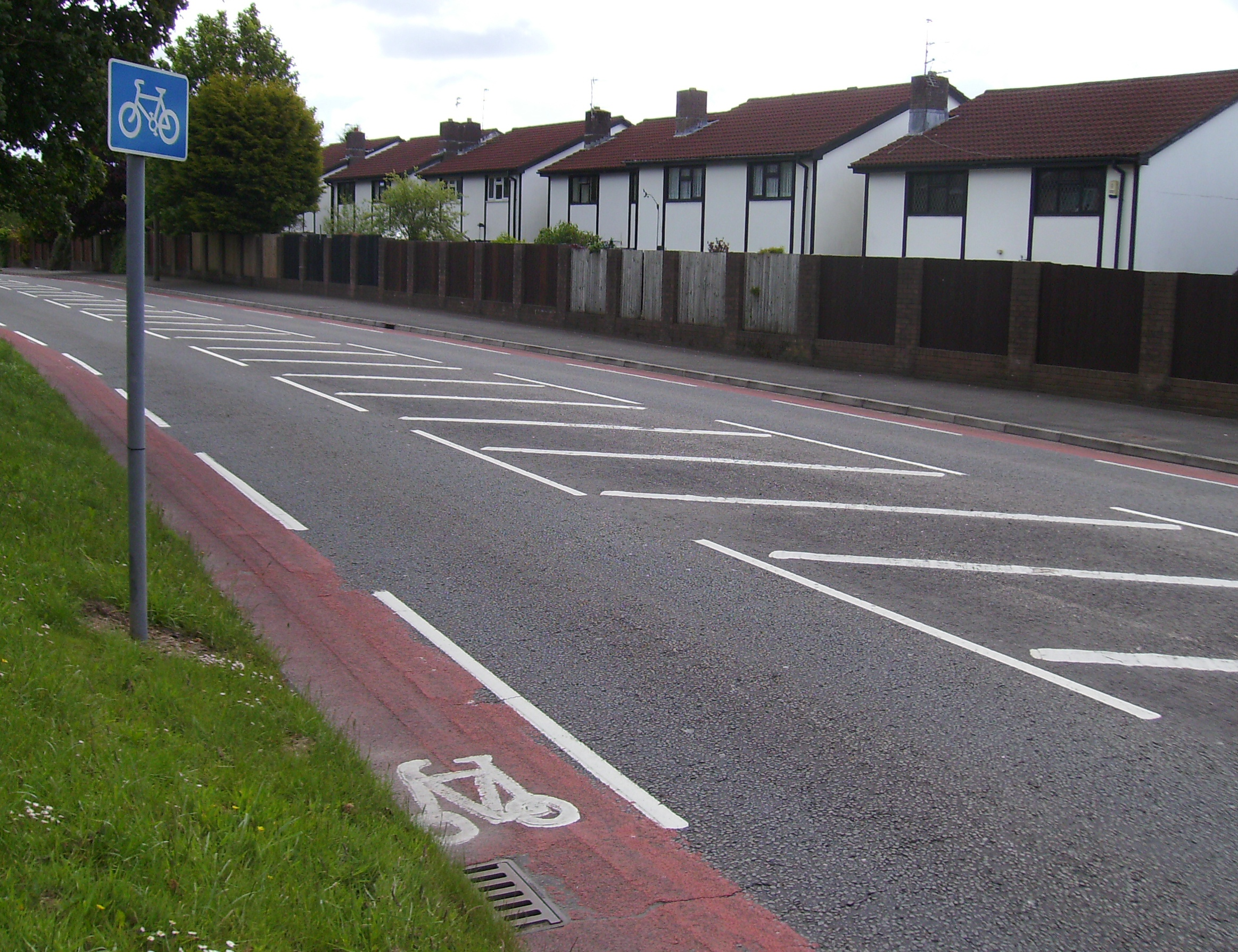 Cycle lane in Excalibur Drive, Thornhill, Cardiff, Wales